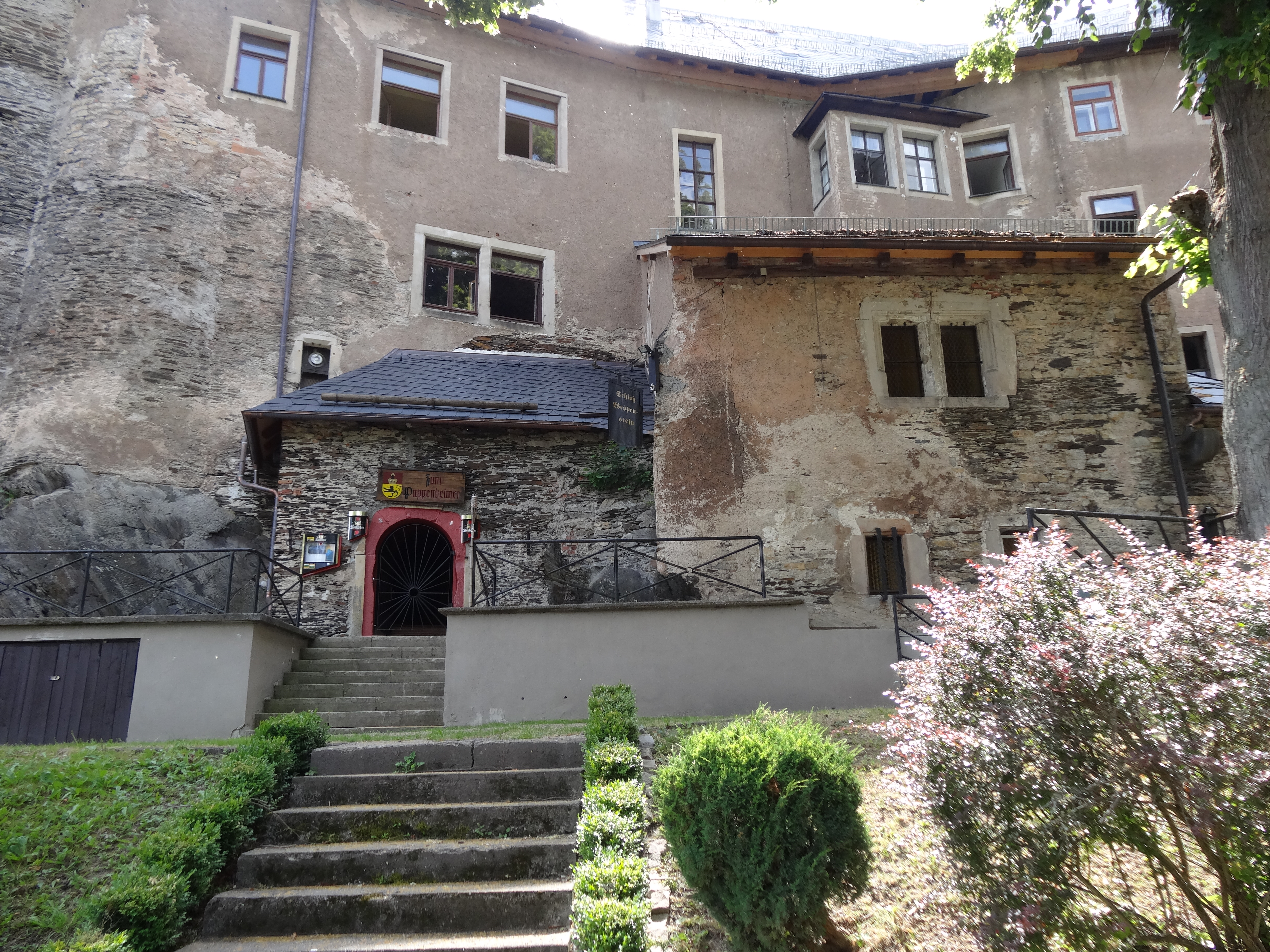 Castle Wespenstein in Gräfenthal, Thuringia, Germany